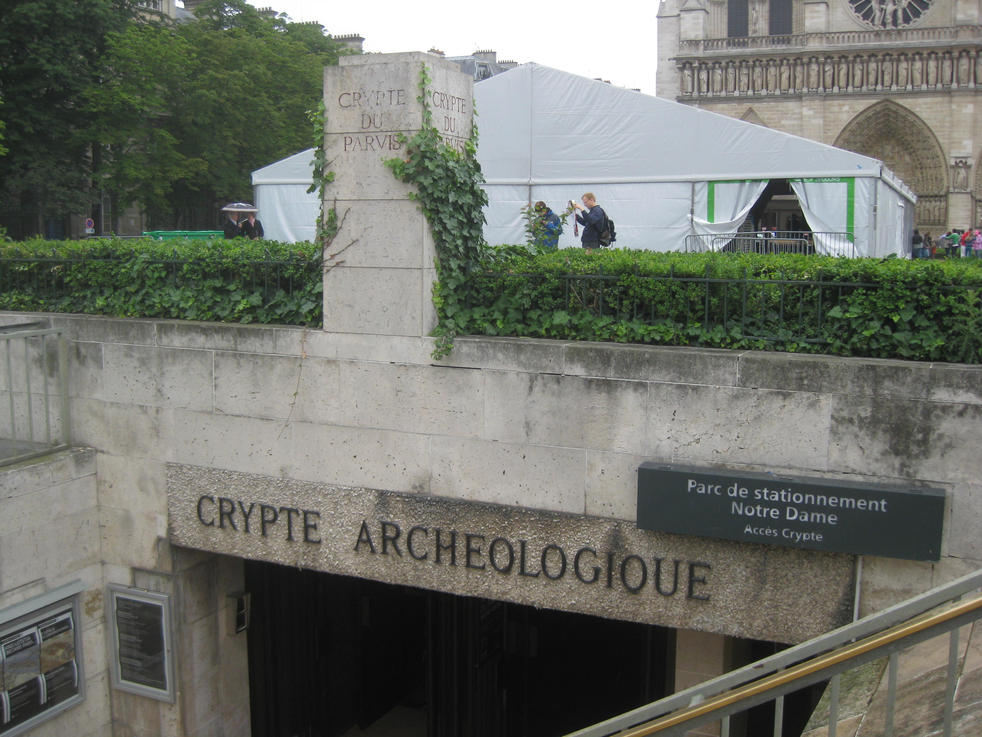 image of the Crypte archeologioue entrance, in front of Notre Dame